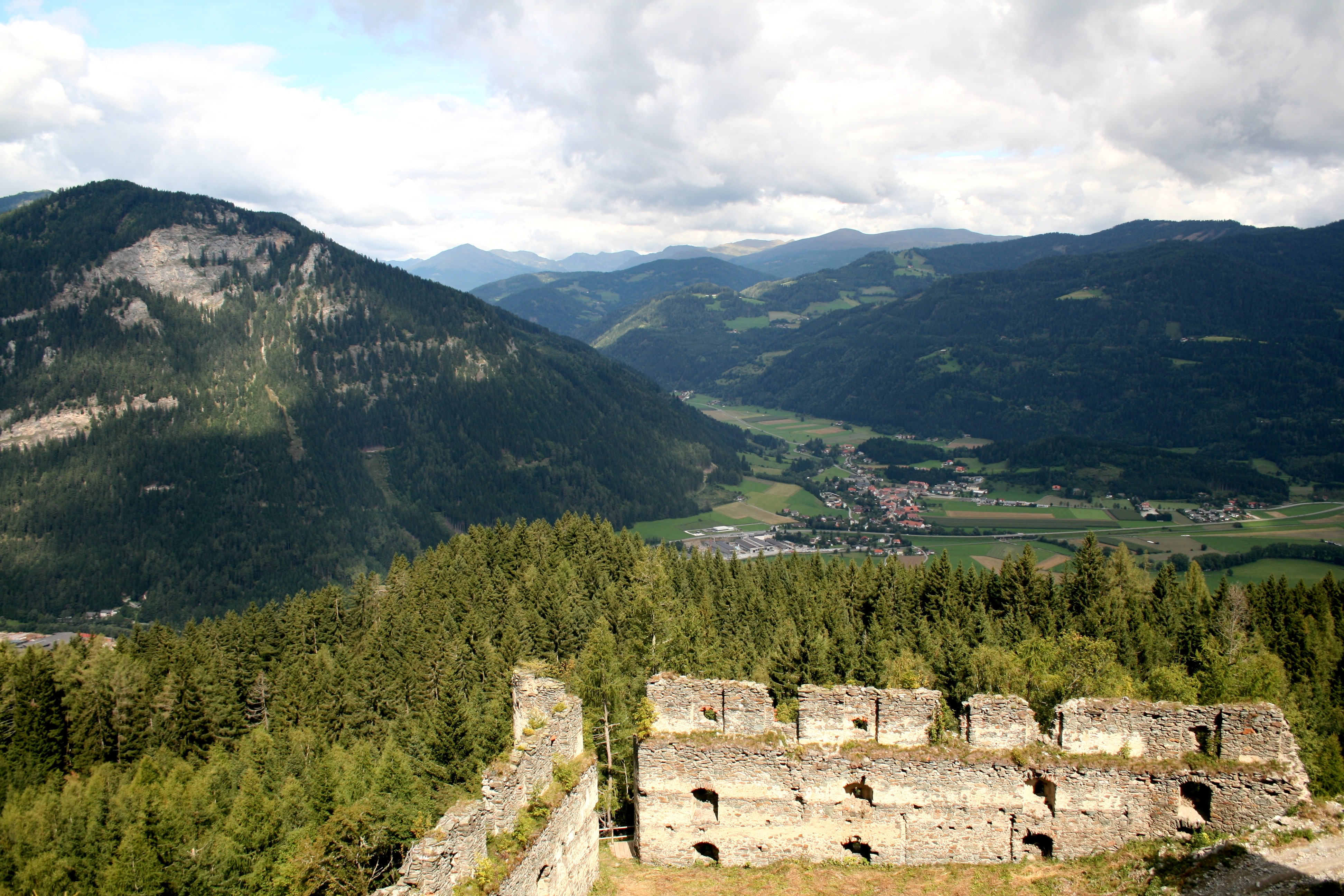 Ruine Steinschloss ("Steinschloss" ruin) in Mariahof, Styria, Austria